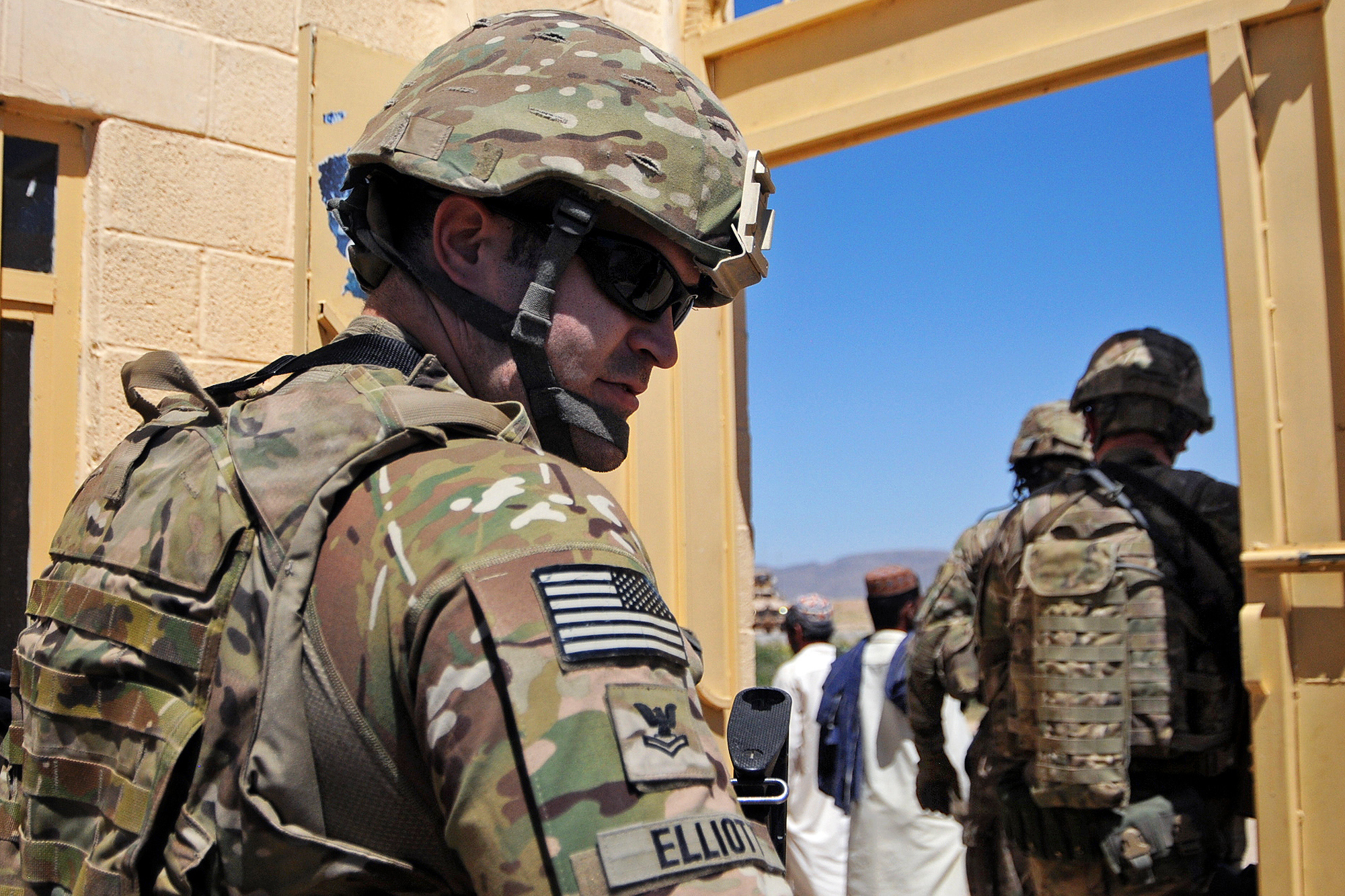 U.S. Navy Petty Officer 2nd Class Christopher Elliott walks with other team members to participate in a key leader engagement in Cin Farsi Village in Afghanistan's Farah province, June 9, 2012. Elliott is assigned to Provincial Reconstruction Team Farah. U.S. Navy photo by Lt. Benjamin Addison